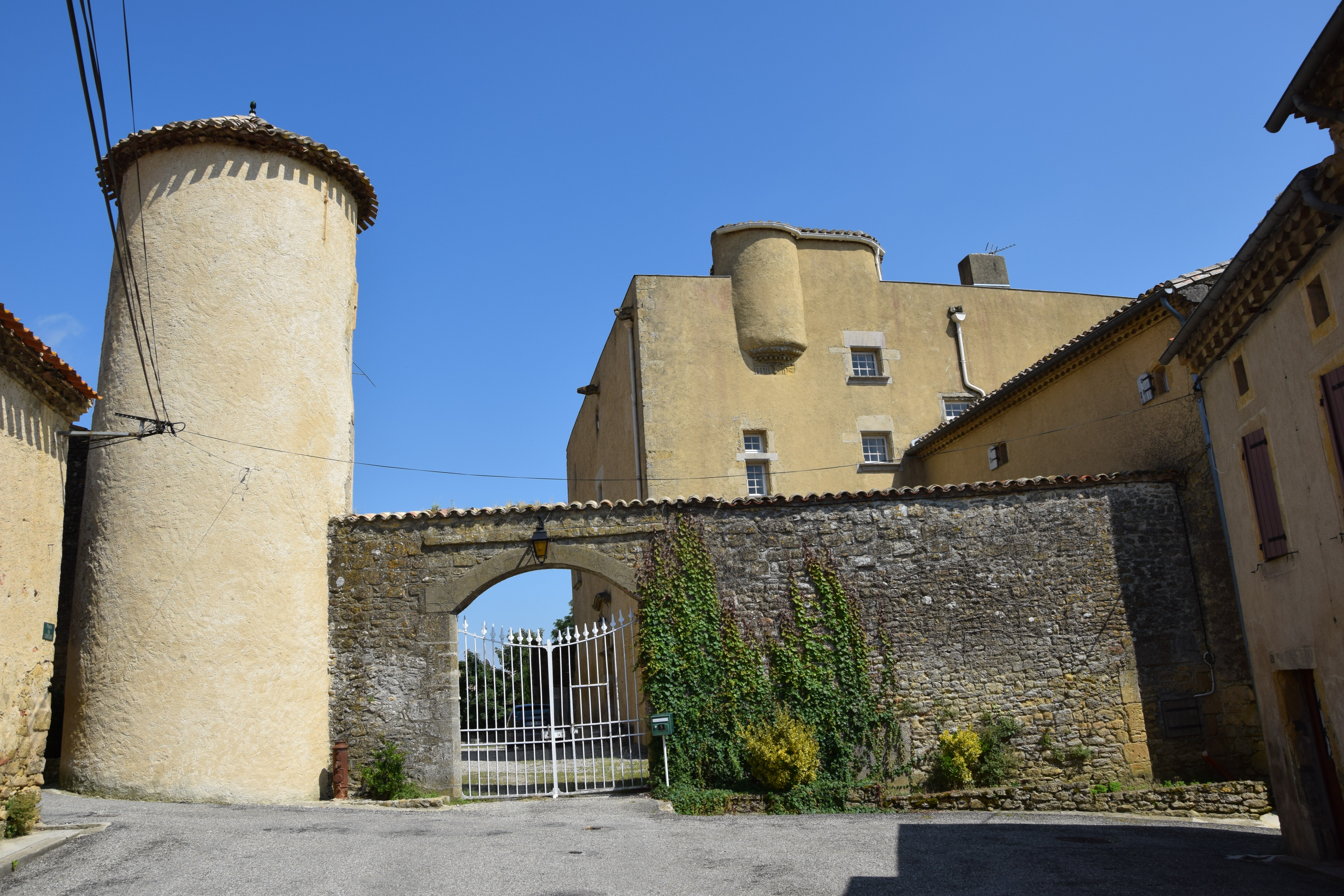 Castle of Payra-sur-l'Hers